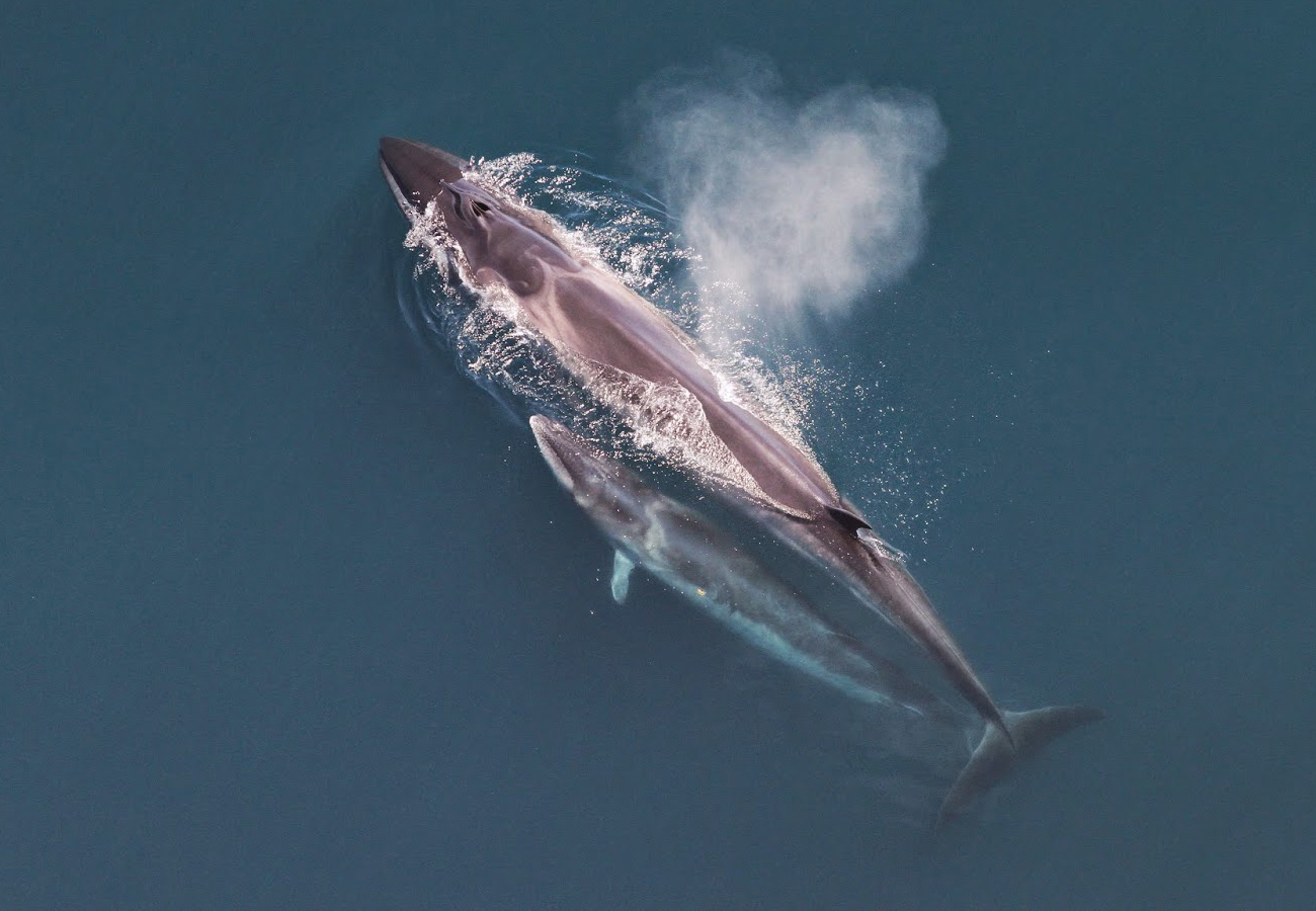 Sei whale (Balaenoptera borealis) mother and calf as seen from the air. The original NOAA image has been modified by cropping.